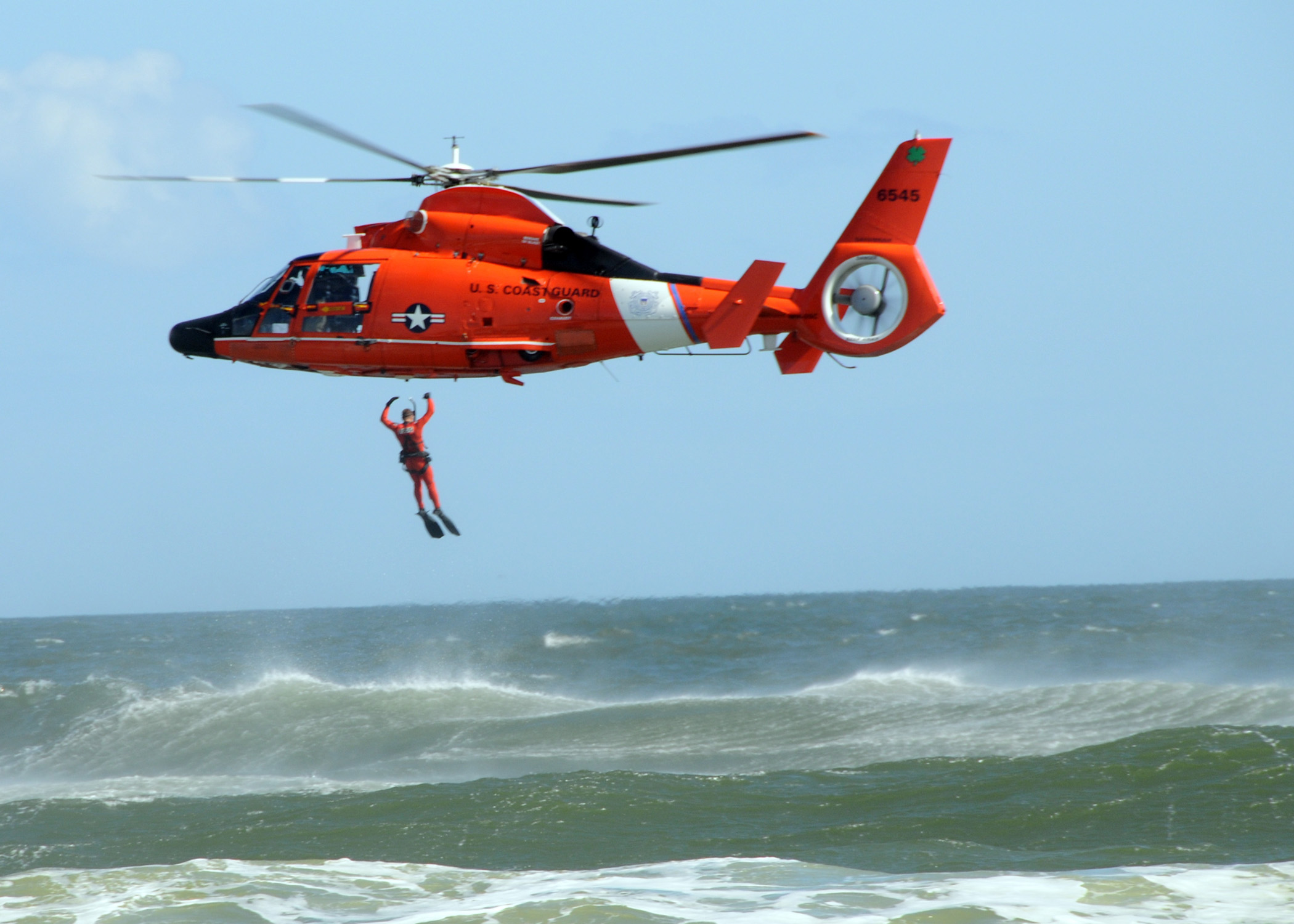 JACKSONVILLE BEACH, Fla. (Nov. 8, 2009) The U.S. Coast Guard demonstrates how they conduct a search and rescue during the 2009 Sea and Sky Spectacular (USCG 6545). The Sea and Sky Spectacular is part of the Week of Valor at Jacksonville Beach. (U.S. Navy photo by Mass Communication Specialist 2nd Class Sunday Williams/Released)